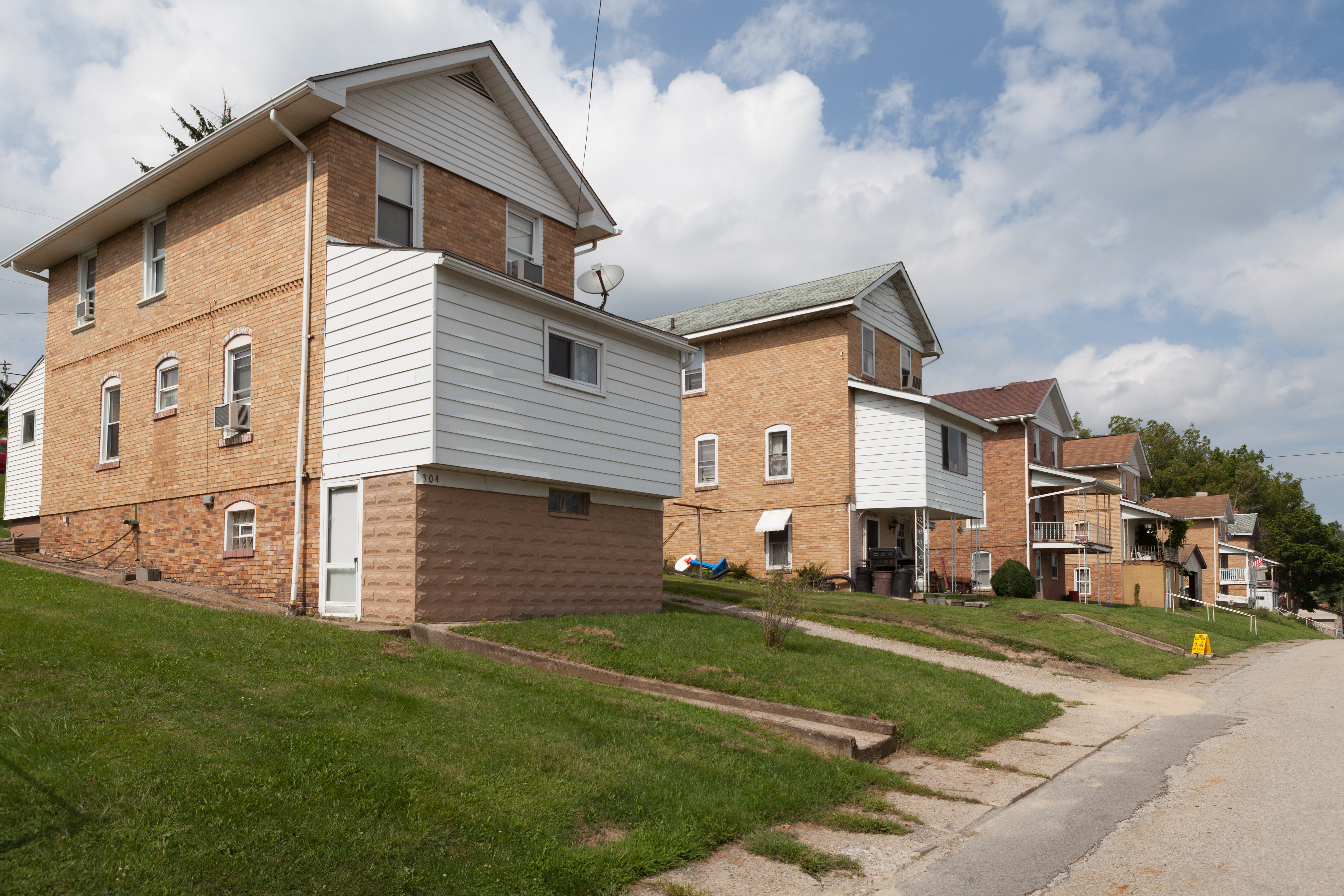 In Washington County, Pennsylvania's Marianna Historic District, near 304 2nd St looking northeast.